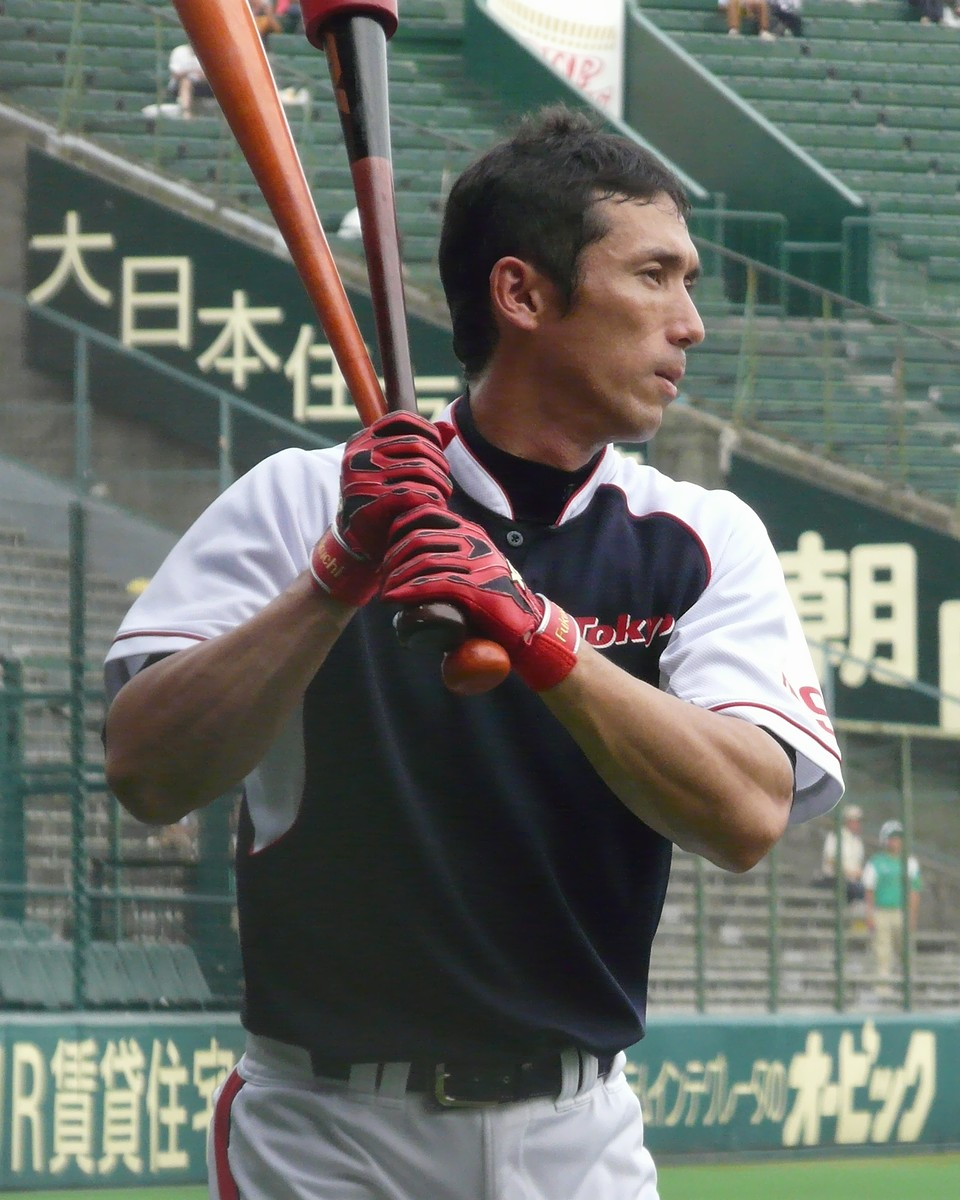 Kazuhiro-Fukuchi